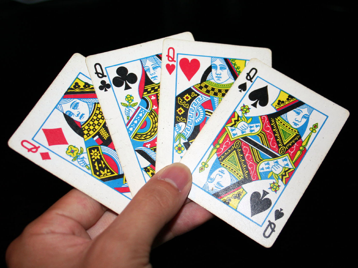 A hand holding the four Queens in a standard deck of cards: Diamonds, Clubs, Hearts, Spades.